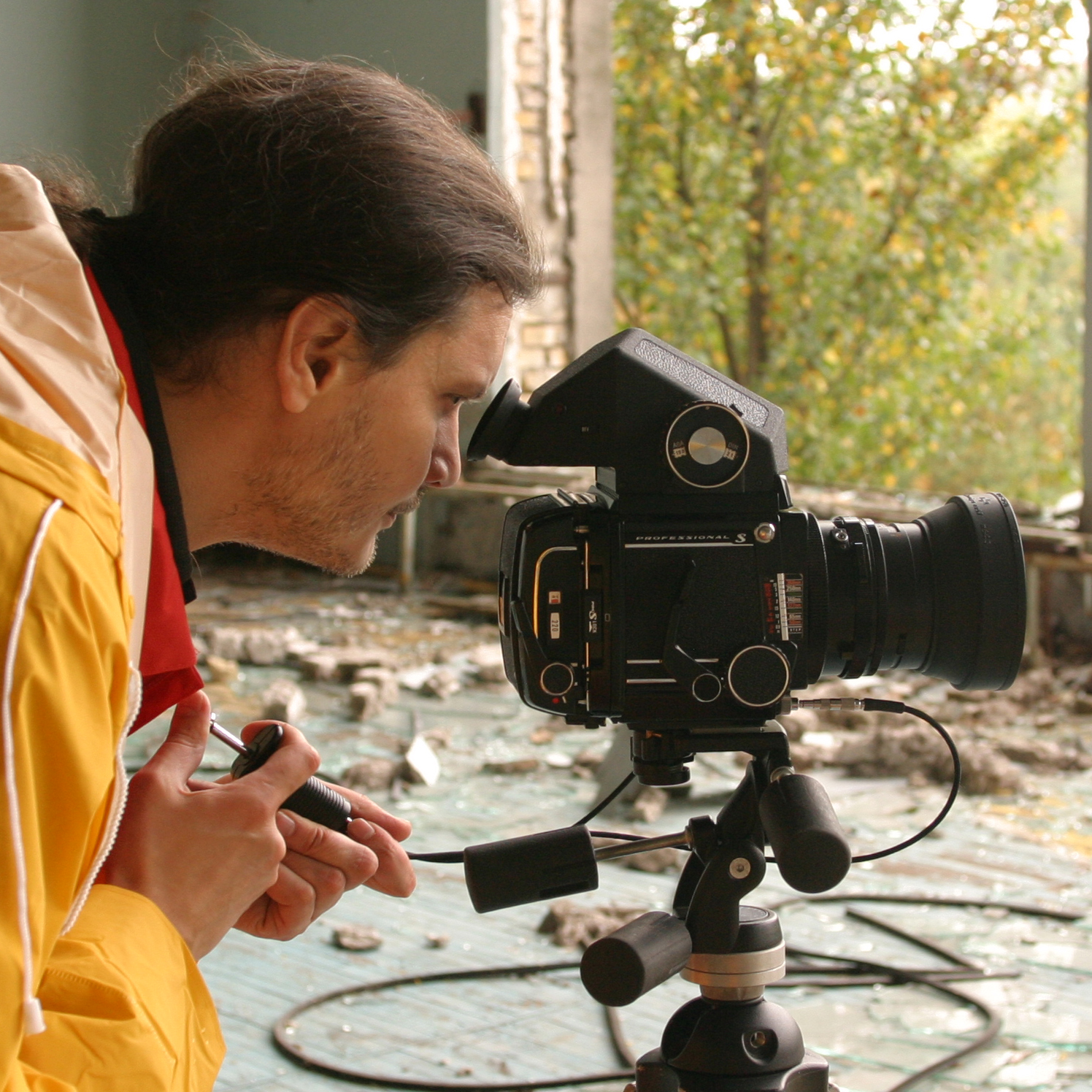 Ihor Podolchak, Ukrainian artist and film maker. Clavutych, Chornobyl zone, 2004